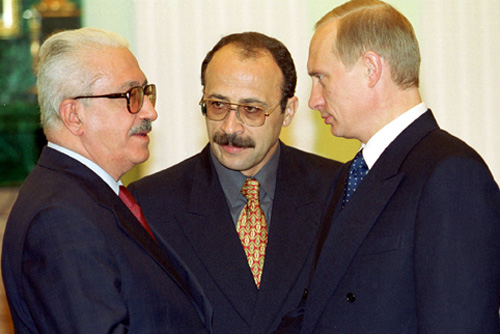 THE KREMLIN, MOSCOW. Meeting with Iraqi Deputy Prime Minister Tariq Aziz.